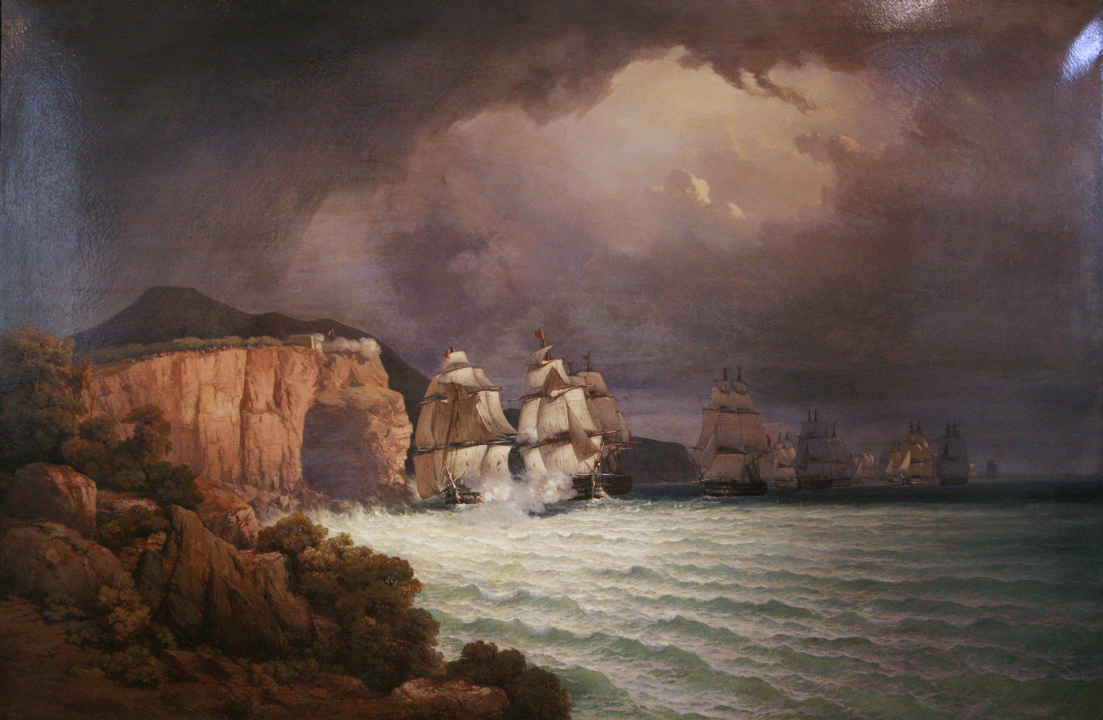 Fight of the Romulus, on display at Toulon Naval museum. Awarded a 2nd class medal at the Salon de Paris of 1848